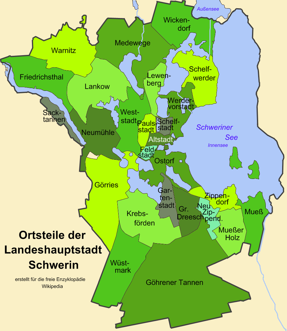 Map of Schwerin (Germany) with boroughs